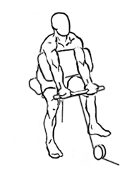 an exercise of biceps